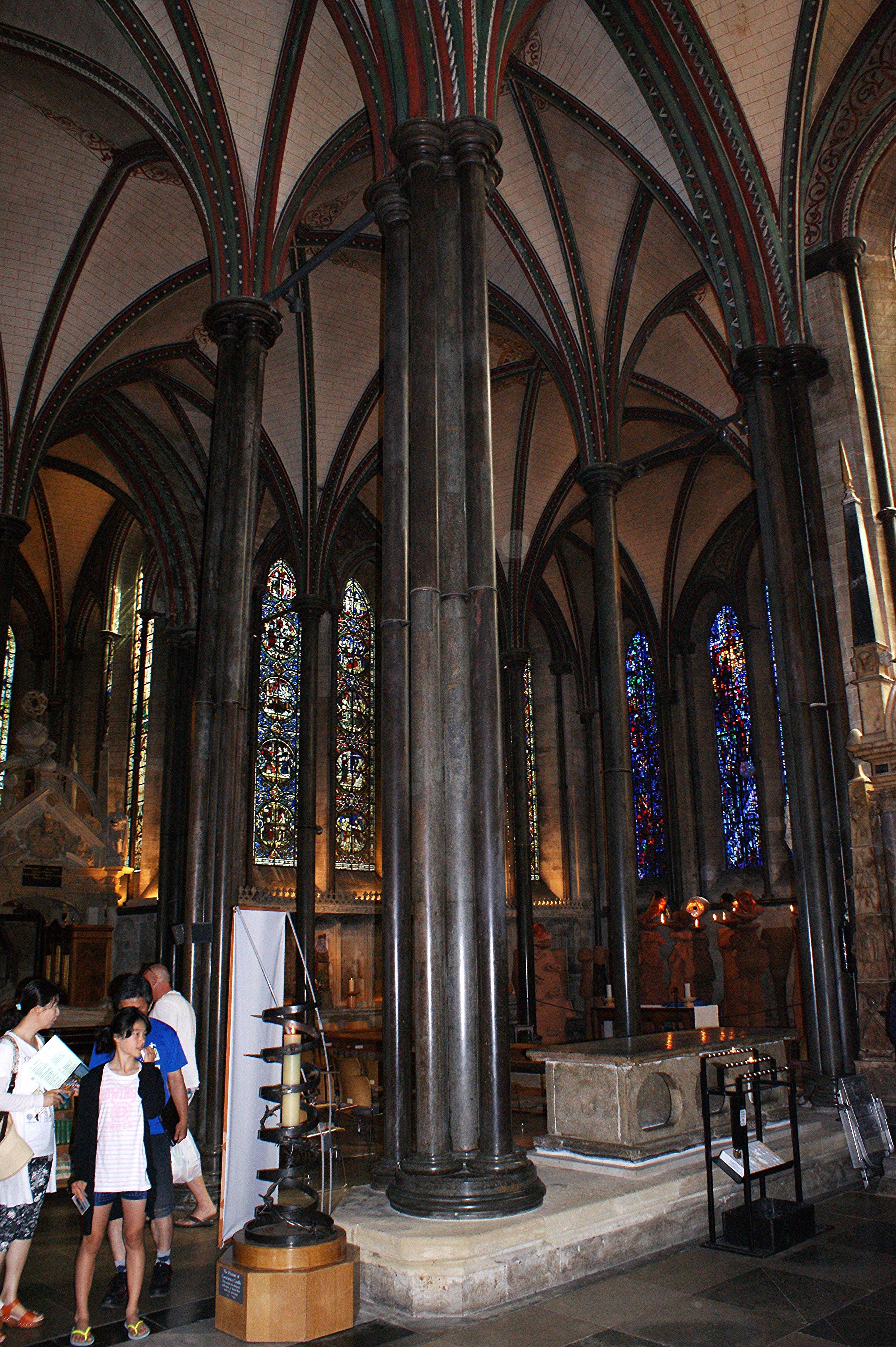 13th Century Early English columns with clustered Purbeck marble shafts in Trinity Chapel at Salisbury Cathedral (St. Mary). Picture taken 28 July 2014.